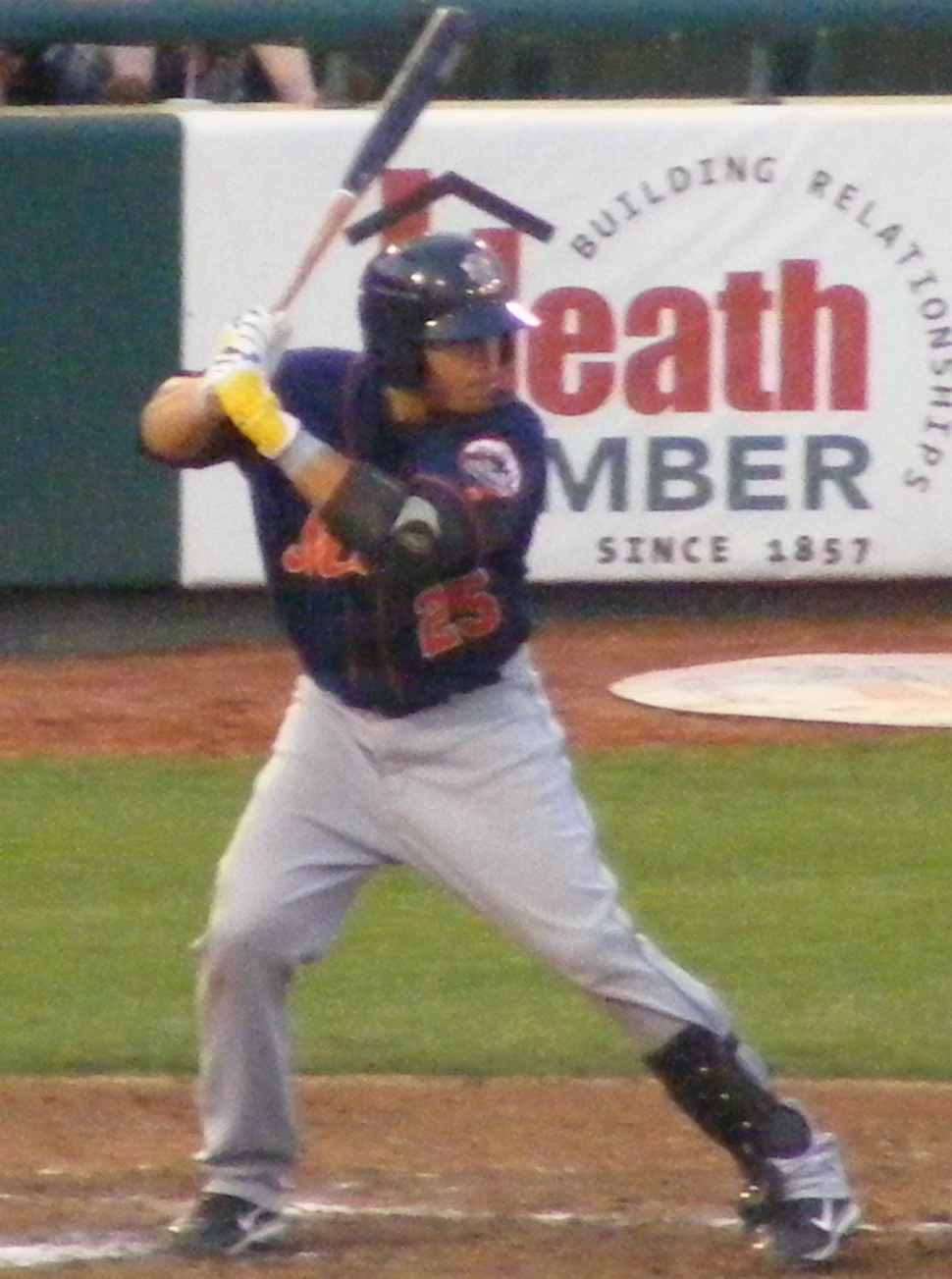 Salomon Manriquez bats for the Binghamton Mets during a 2011 game at Arm & Hammer Park in Trenton, New Jersey